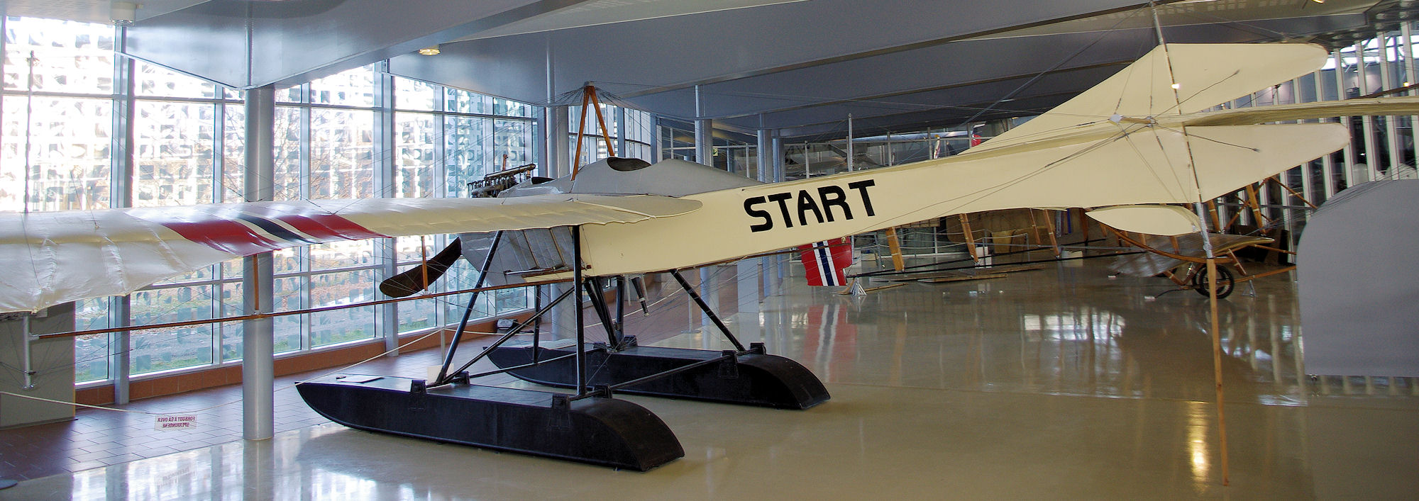 Rumpler Taube, Start, Flysamlingen, Gardermoen